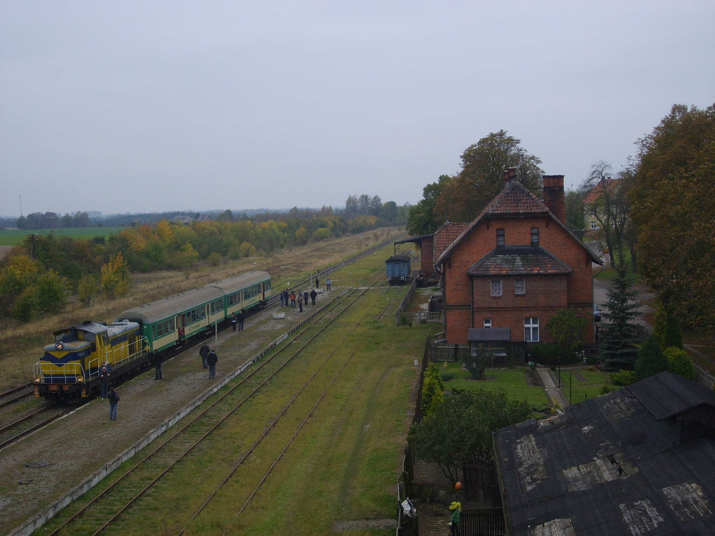 Tourist train at Pruszcz-Bagienica station in Poland. View from a water tower.